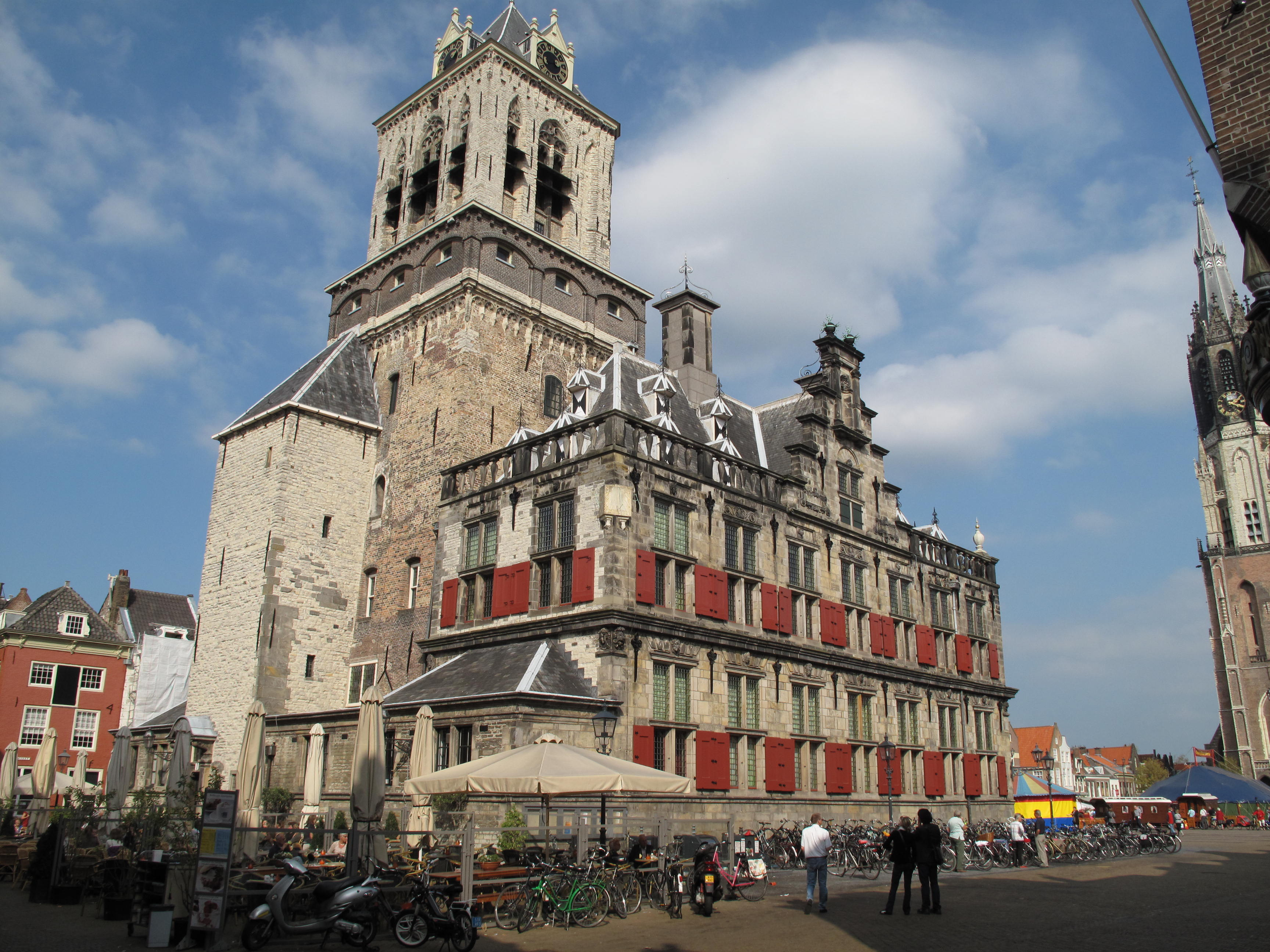 Delft, monumental building